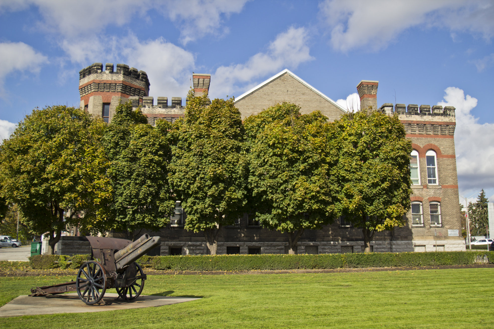 Park in front of Sgt William Merrifield Armoury on Brant Ave. in Brantford, Ontario